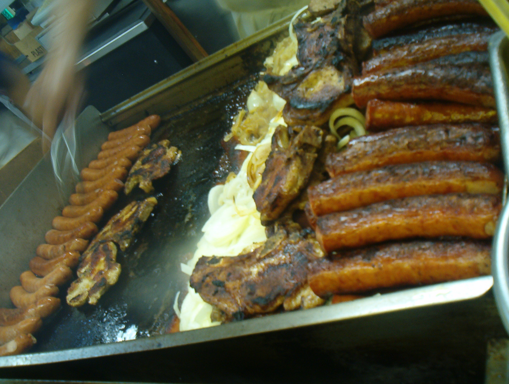 self made